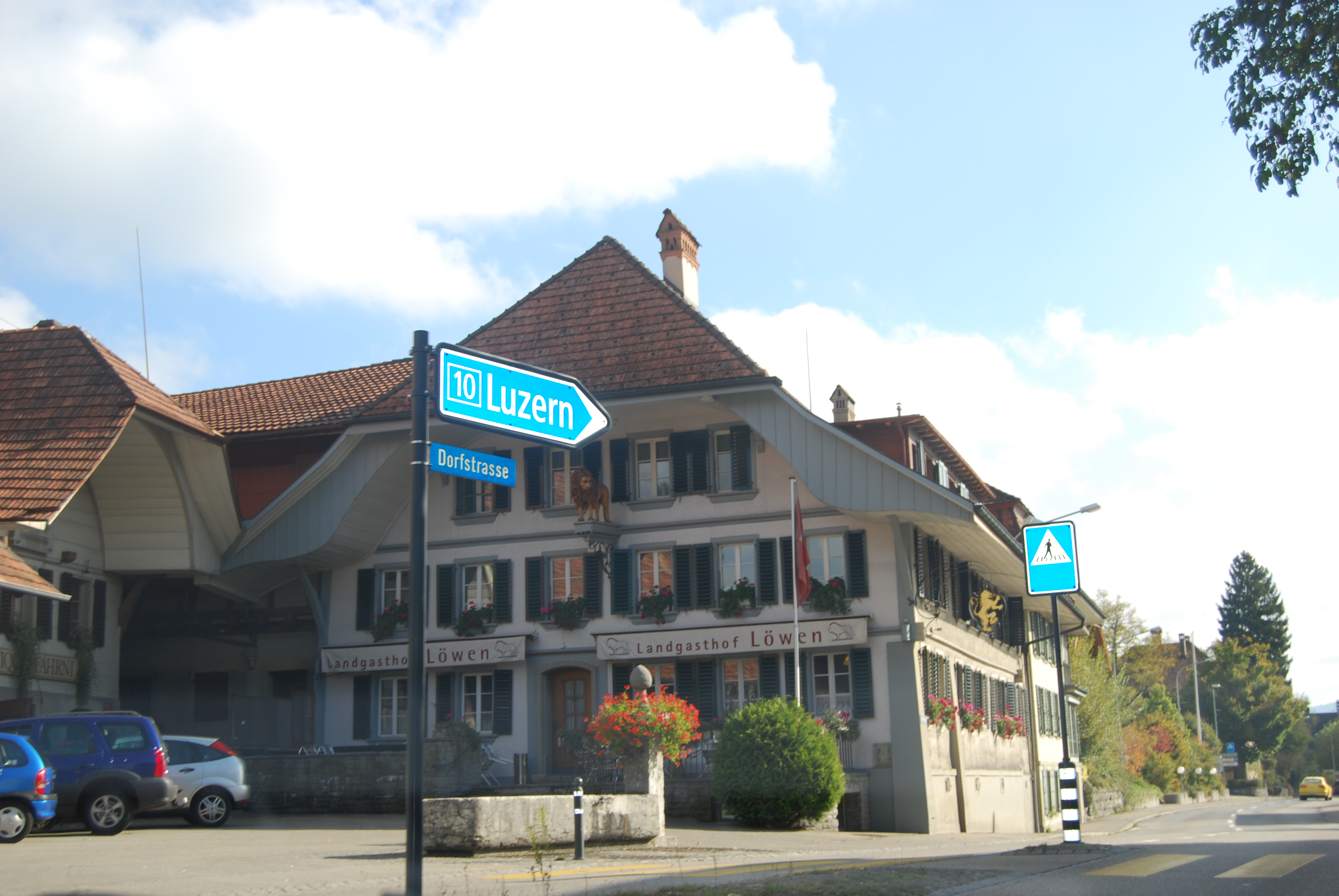 Landgasthaus Löwen at Grosshöchstetten, canton of Bern, SwitzerlandEsperanto: Kampargastejo Löwen en Grosshöchstetten, Kantono Berno, Svislando